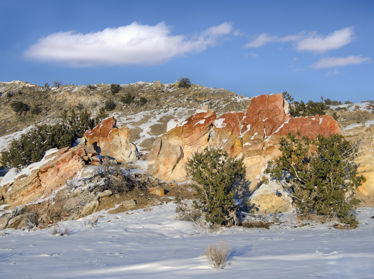 Ojito Wilderness, Sandoval County, New Mexico. About 4 mi SW of San Ysidro.